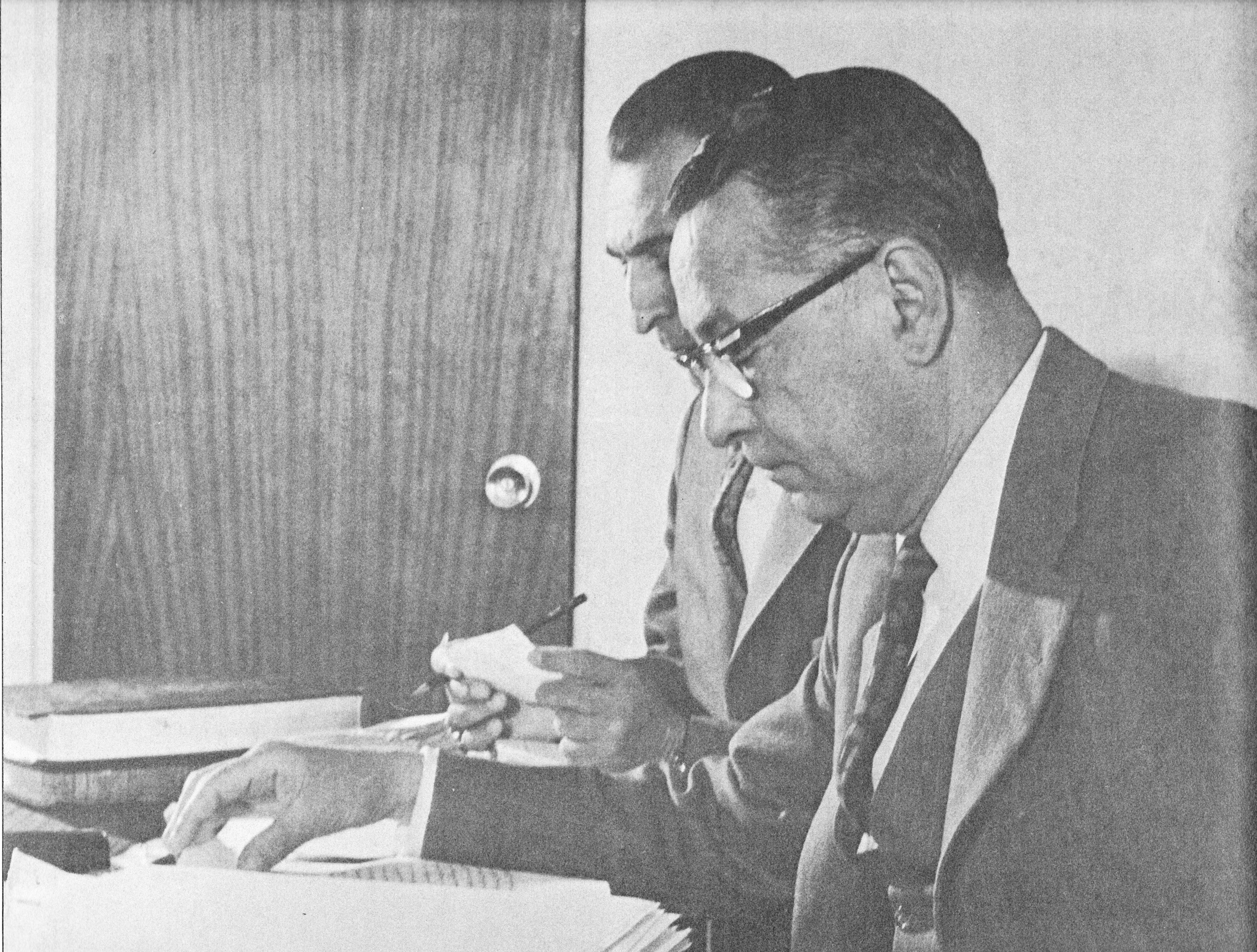 Parviz Natel-Khanlari